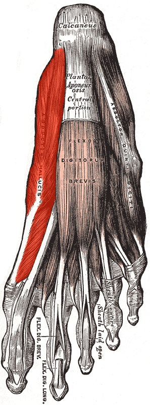 abductor hallucis muscle